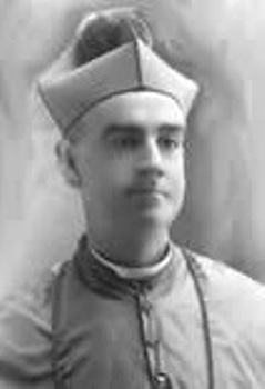 Bishop Charles Joseph O'Reilly